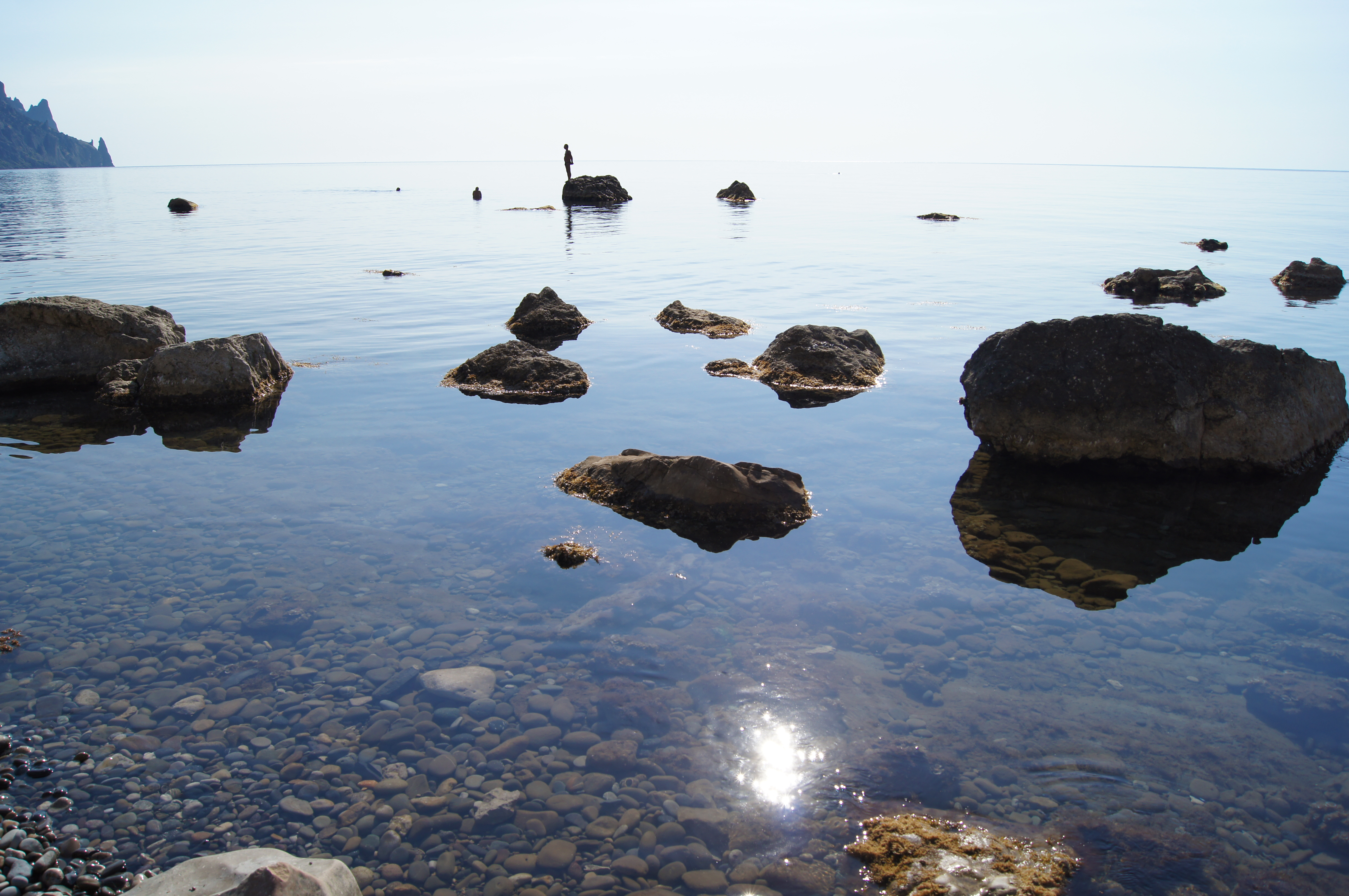 Lisya ("Fox") Bay. Rocks in the sea, rocky coastline of Black Sea, Crimea. Traits of ancient Jurassic volcanism in Crimea. This object is located on the Crimean Peninsula and recognized as a protected area by both Russia and Ukraine under the ID: 8210127 / 01-117-5002, respectively. The legal status of the Crimean region is currently disputed.